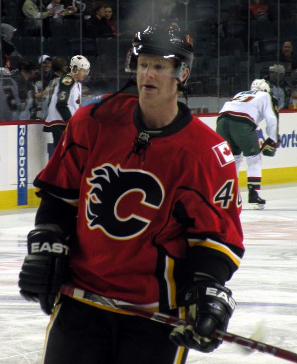 Calgary Flames defenceman Jordan Leopold during warm-up prior to a National Hockey League game against the Minnesota Wild in Calgary.